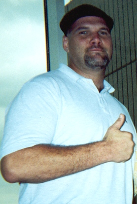 Mike Droese at a Houston Airport, April 2, 2001.